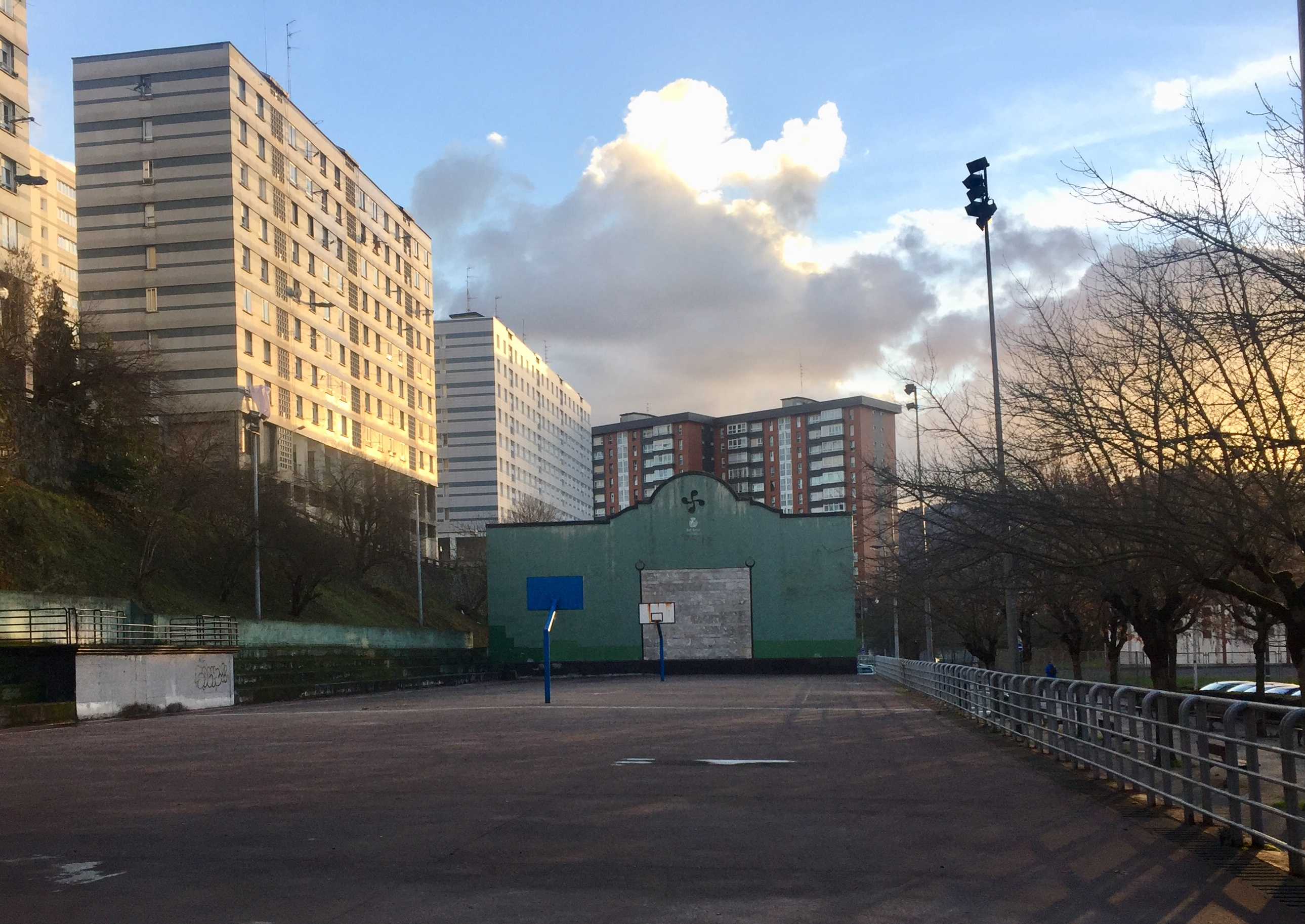 Square in Otxarkoaga (Bilbao) useful to play Errebote pilot game. The photo has been taken in January 2019.